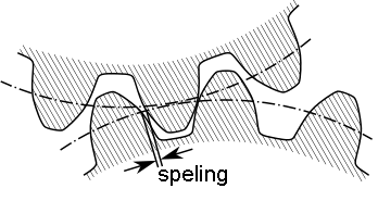 Dutch version of Backlash.jpg (by GearHeads) / Backlash.svg (by slashme)